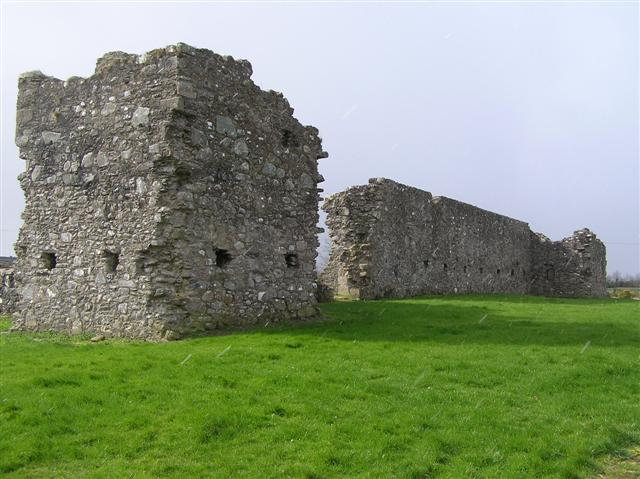 Castlederg Castle. It is located a short walk from the town centre and is alongside the river Derg. Built by Sir John Davies on a site previously occupied by an 0'Neill Tower House, this defended stone house or bawn commands a site of once strategic importance on the River Derg. The Bawn would have been a refuge for planter families during the 1641 rebellion and was eventually rendered unfit for occupation after an attack by Sir Phelim O'Neill. The ruins today consist of a rectangular bawn with square flankers at each corner. Those situated by the riverside were opentopped, providing a point for artillery. The flankers on the north side were roofed forming part of the living area.